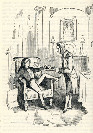 Illustration to chapter 56 of Vanity Fair by William Makepeace Thackeray